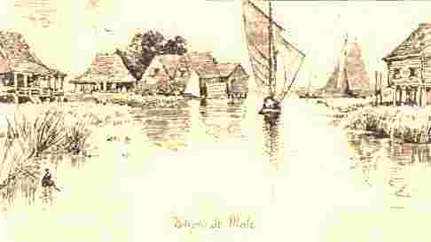 St. Malo, Louisiana, 1883. St. Malo was a Filipino community located at Bayou St. Malo and Lake Borgne, some 5 miles east of Shell Beach, Louisiana. The town was destroyed by the Great Hurricane of 1915.